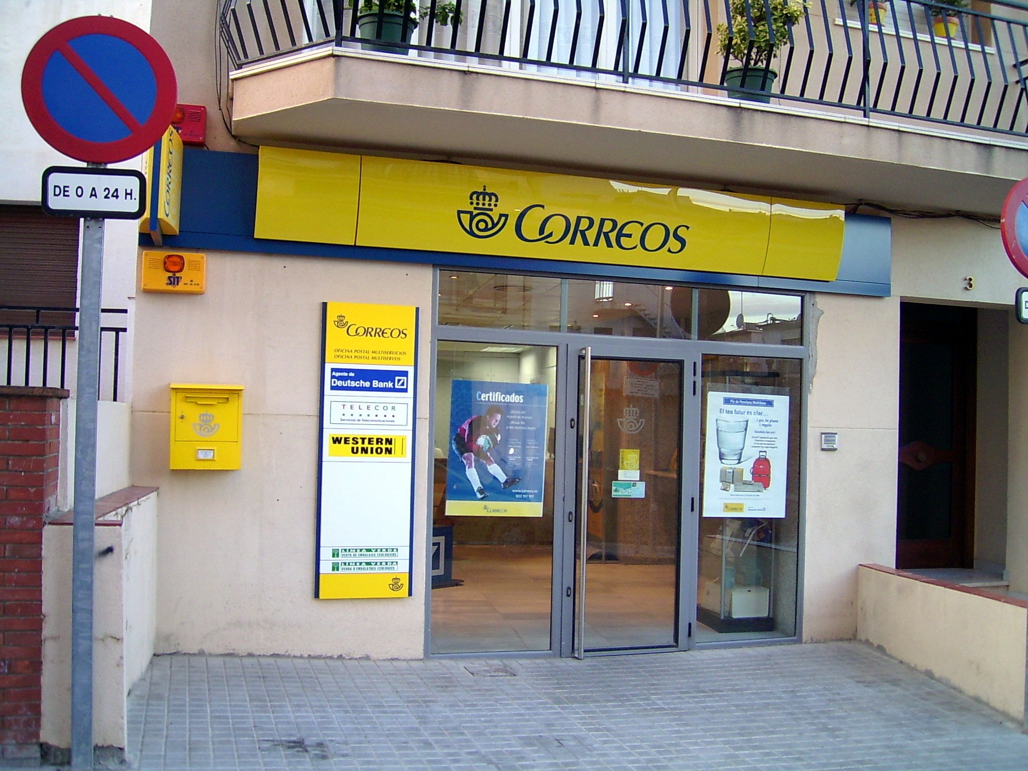 Post office of Vilassar de Dalt.